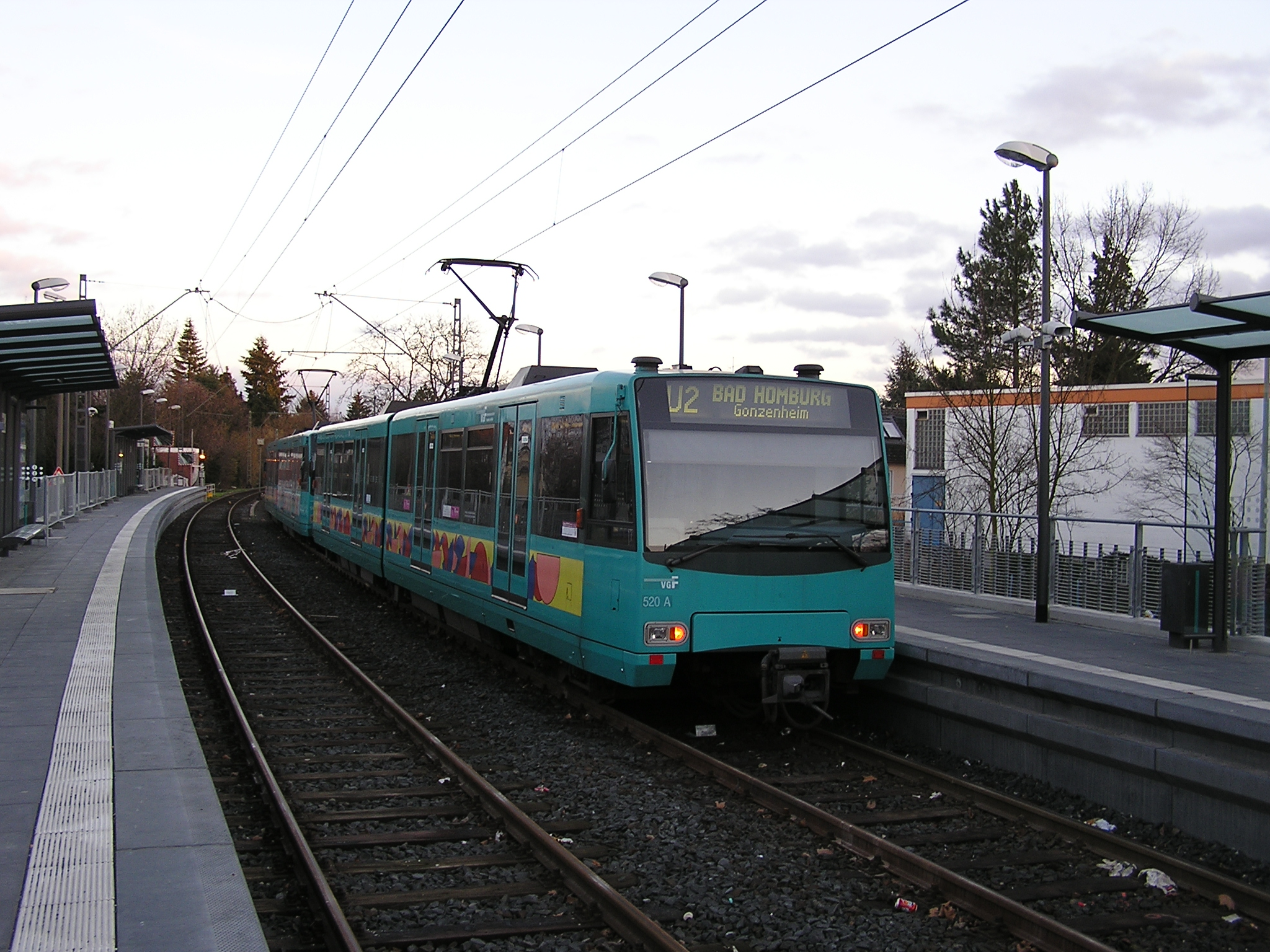 U2 terminal stop Bad Homburg-Gonzenheim (U4-Wagen)